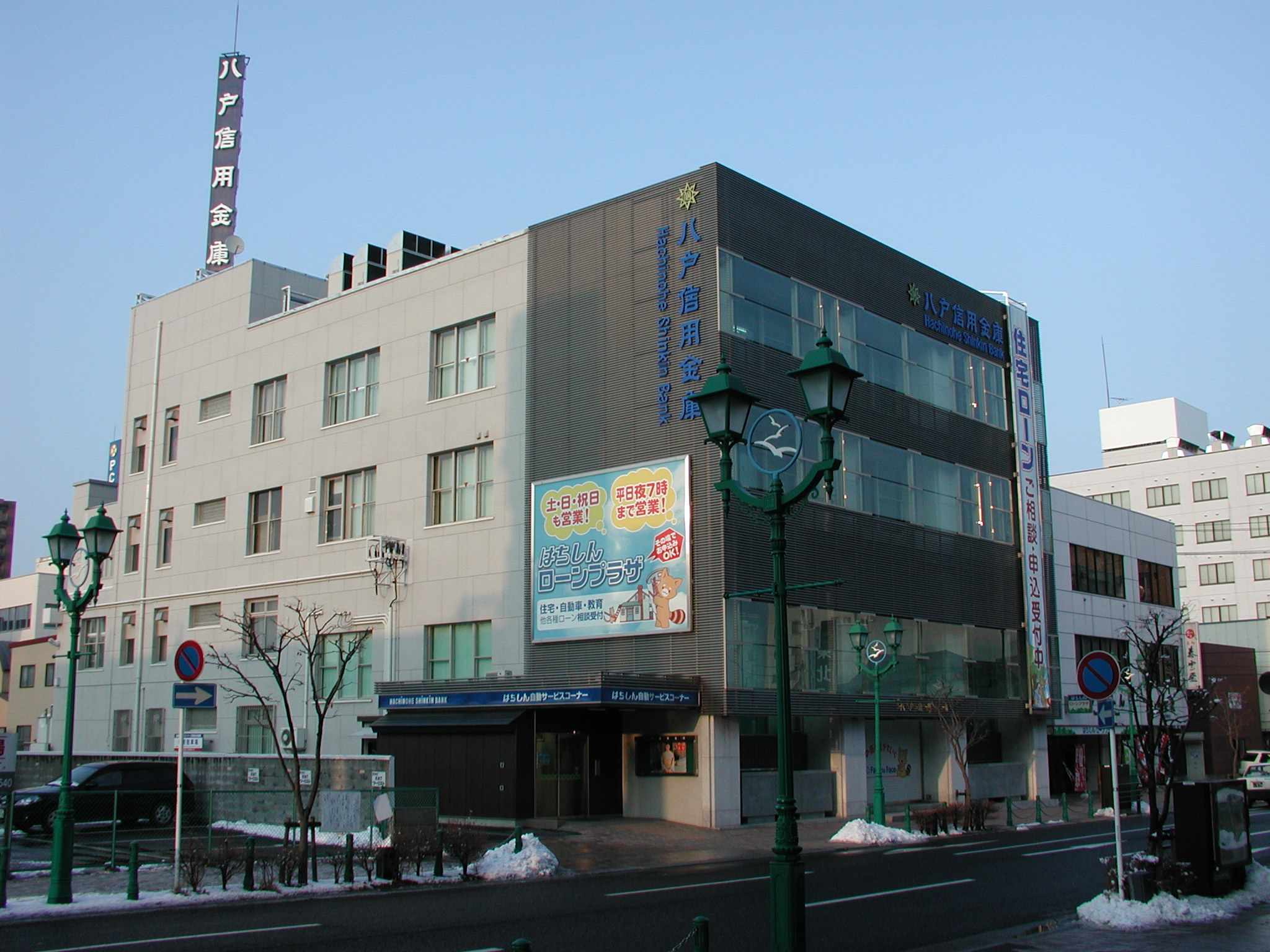 The Hachinohe Shinkin Bank Head shops